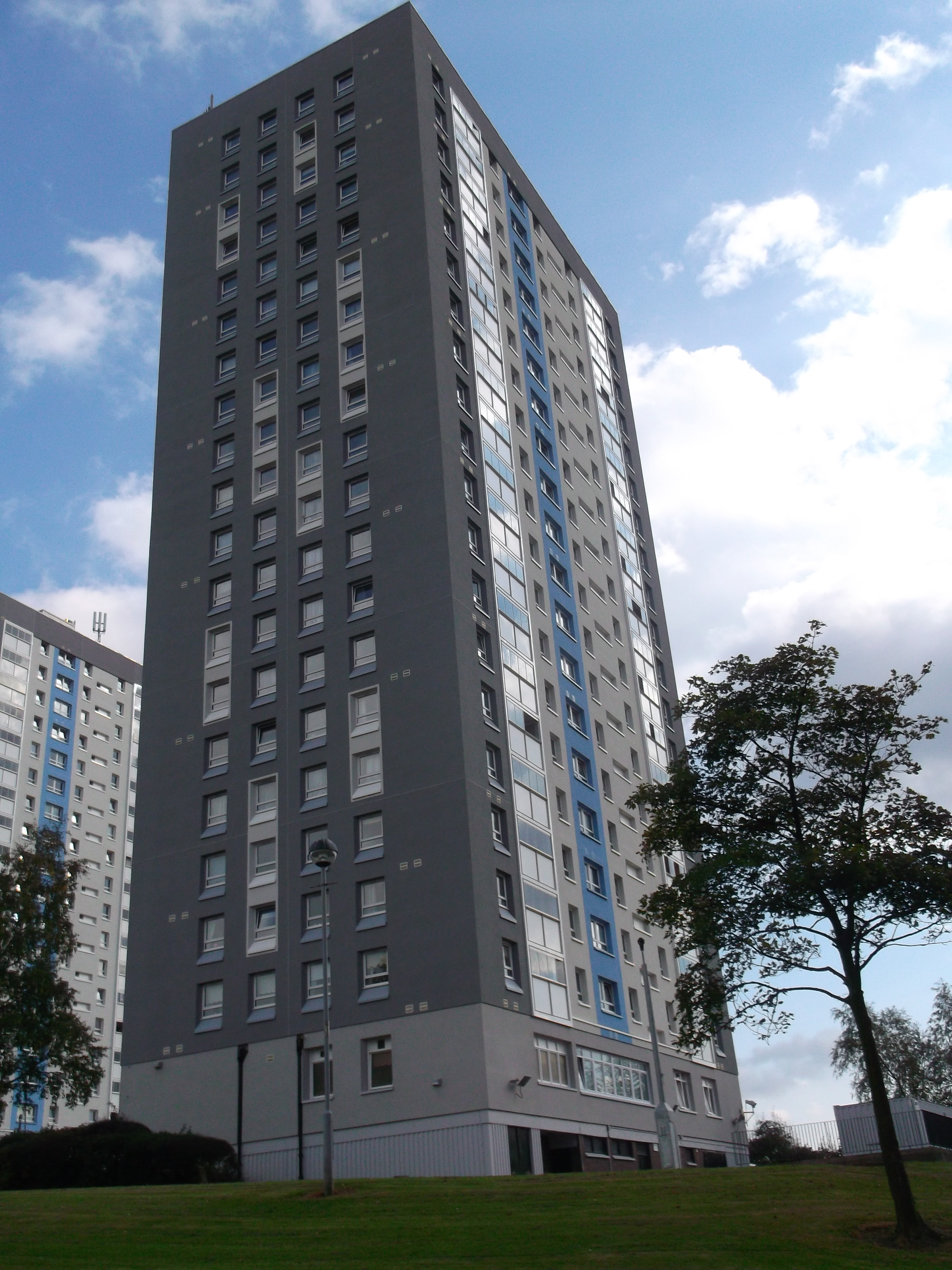 27 Linkwood Crescent, Drumchapel, Glasgow. A 19 storey block of flats, which had recently been refurbished.